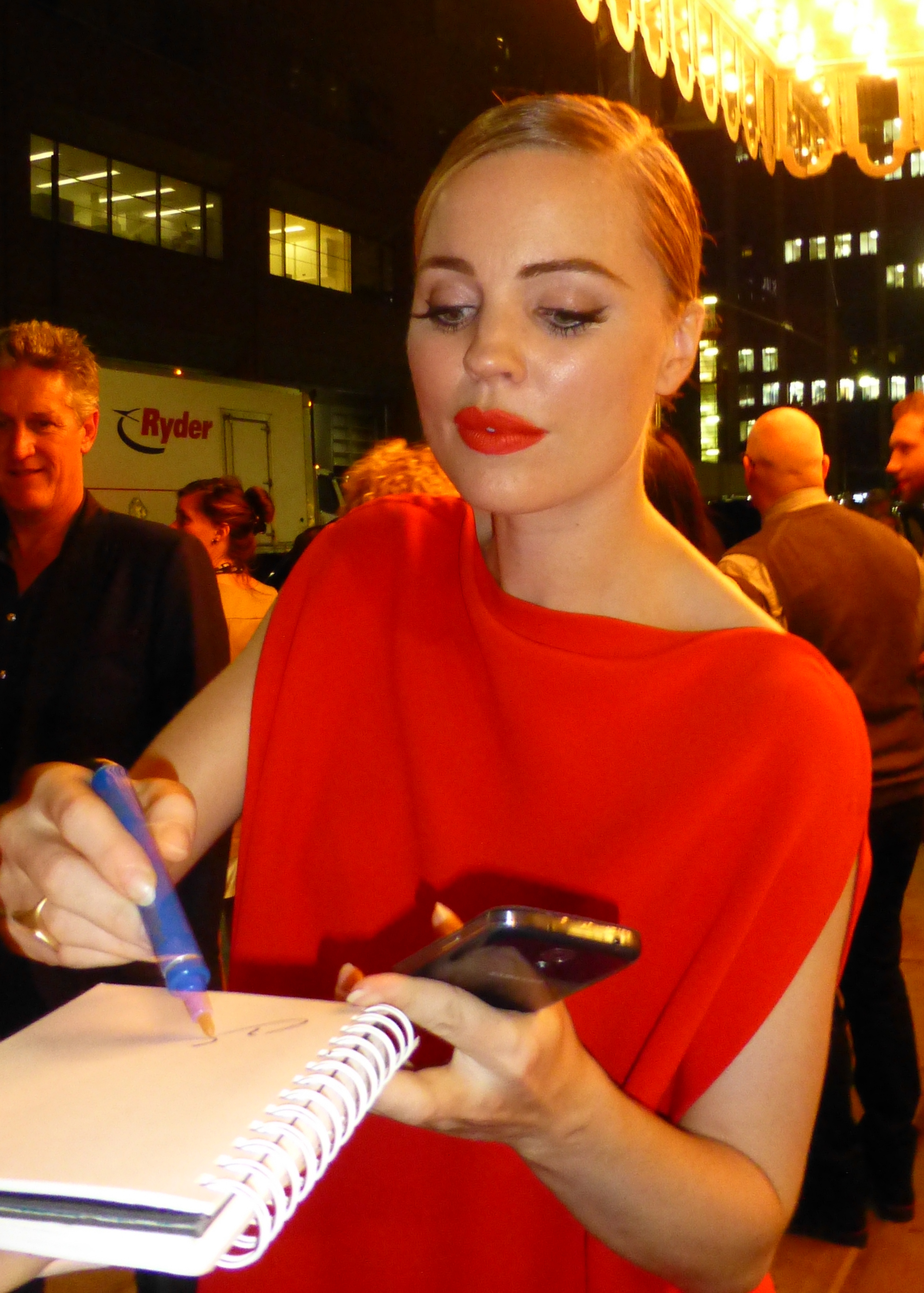 Melissa George at the premiere of Felony, Toronto Film Festival 2013